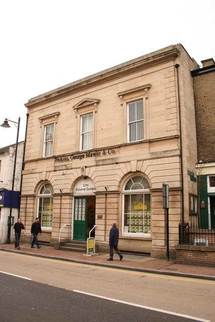 Corn Exchange Formerly Market Rasen Corn Exchange on Queen Street, by H.Goddard in 1854. Now an estate agents office